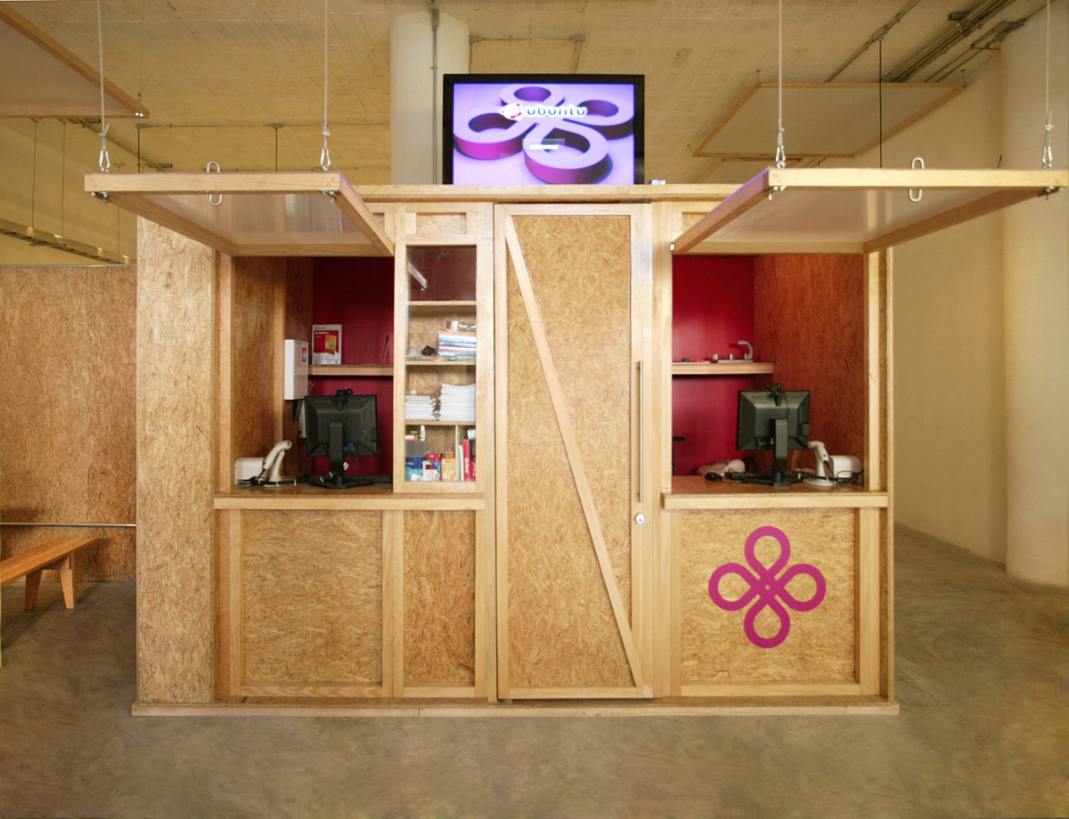 RIA center at Toluca State of Mexico